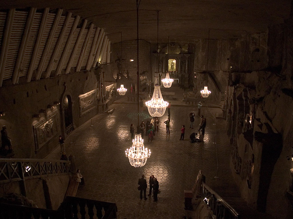 Wieliczka salt mine - The Chapel of Saint Kinga